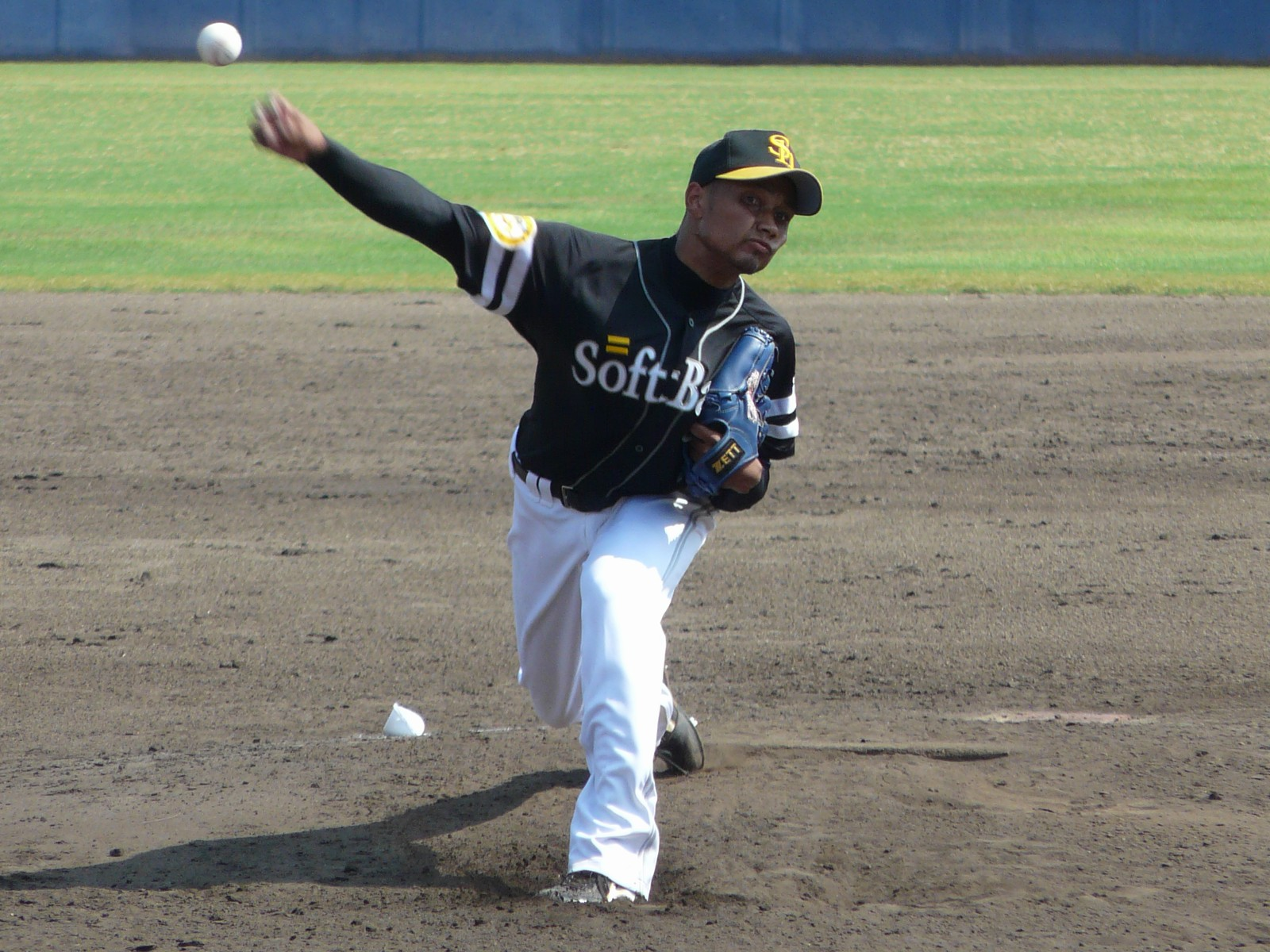 Koji Uchida